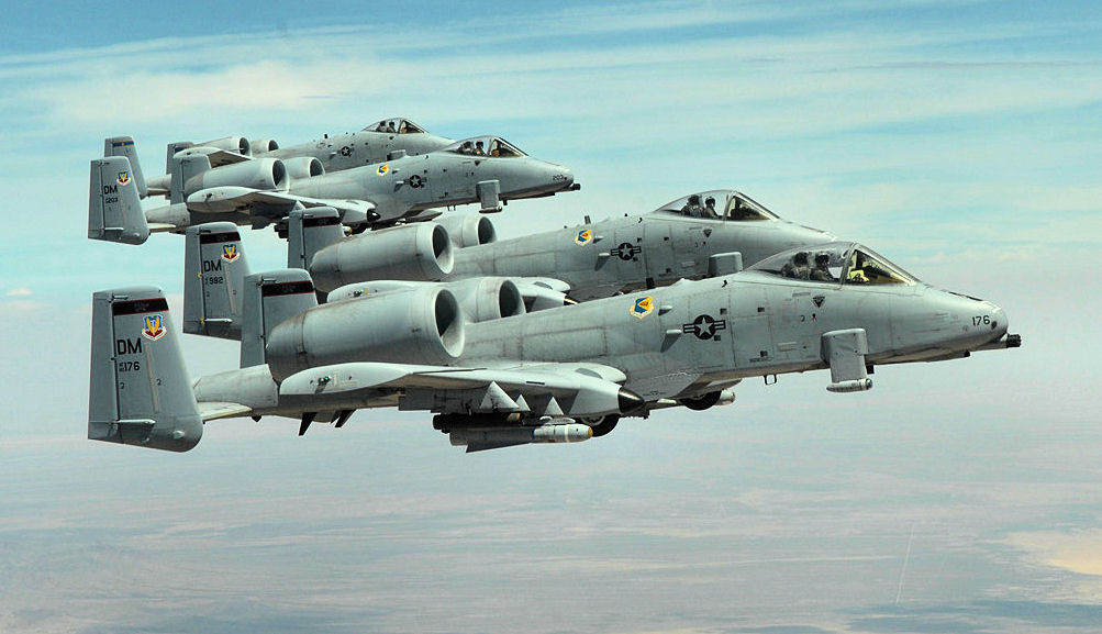 Four A-10s from Davis-Monthan fly in formation over Arizona